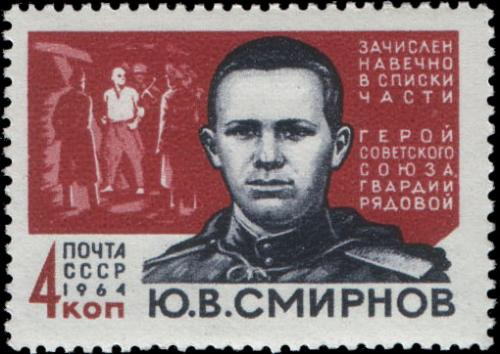 To translate...